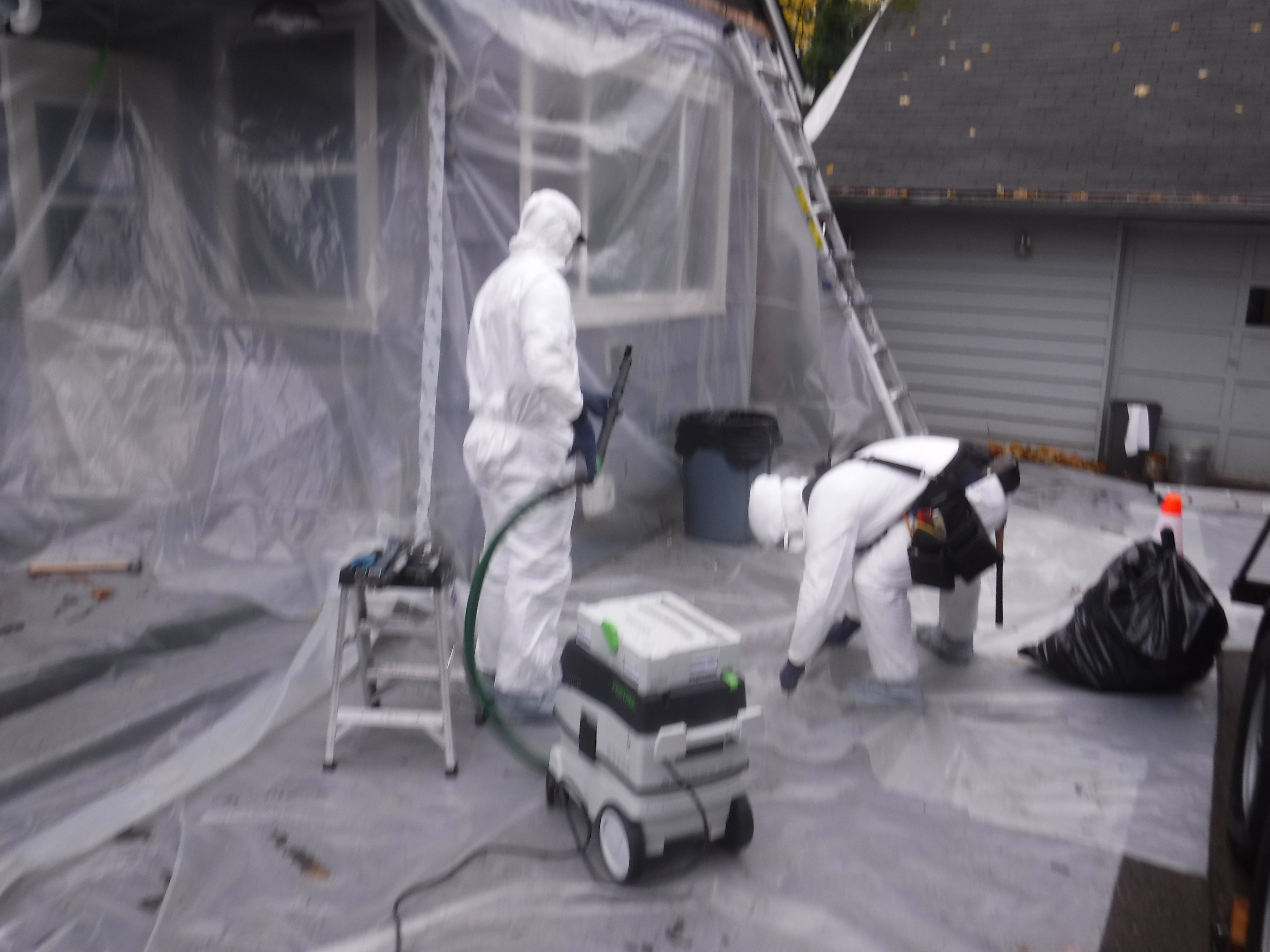 Safety procedures for lead paint abatement